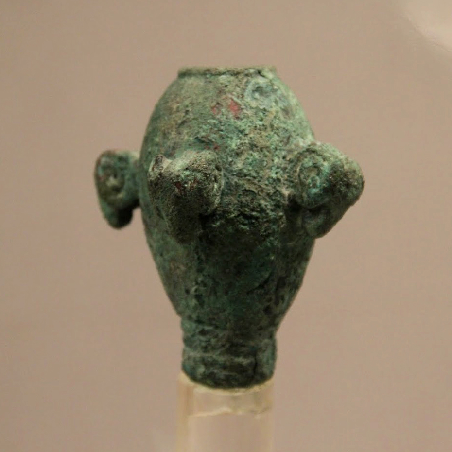 Bronze mace head with 4 sheep, Siba Culture, 1900-1400 BC. Gansu Provincial Museum, Lanzhou